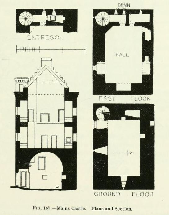 A plan of Mains Castle in Lanarkshire, near East Kilbride circa 1887